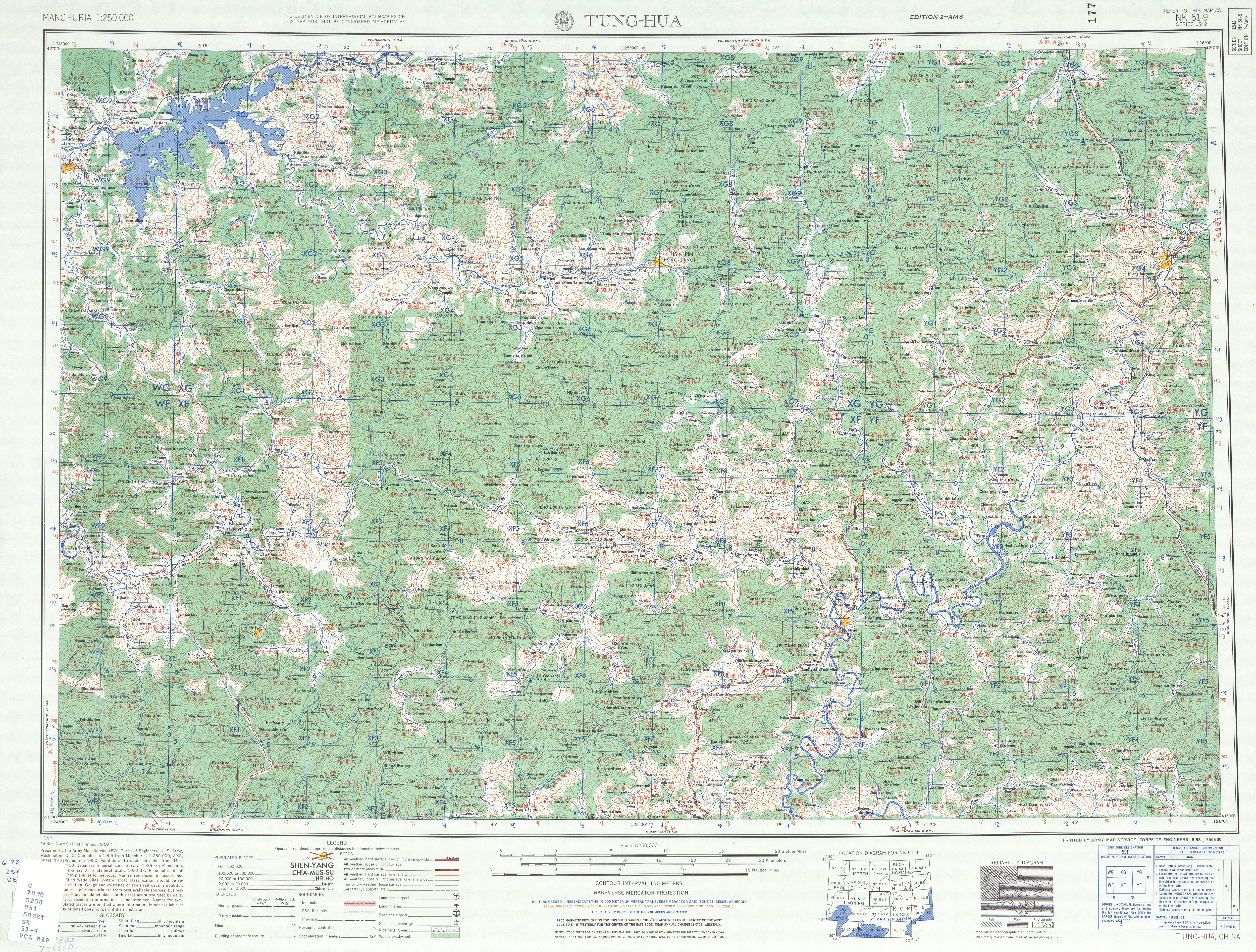 Manchuria AMS Topographic Maps